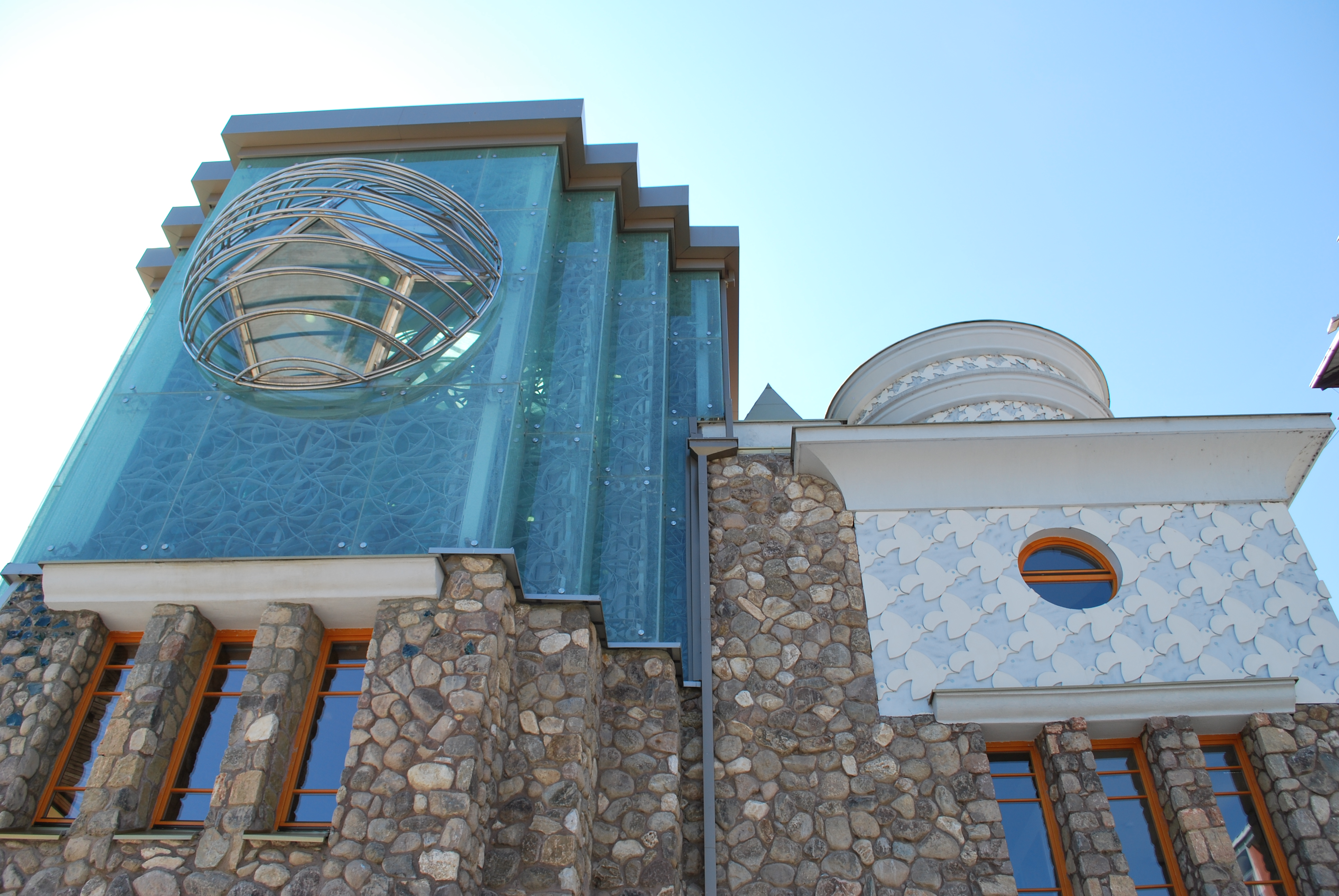 House of Mother Teresa in Skopje, Macedonia